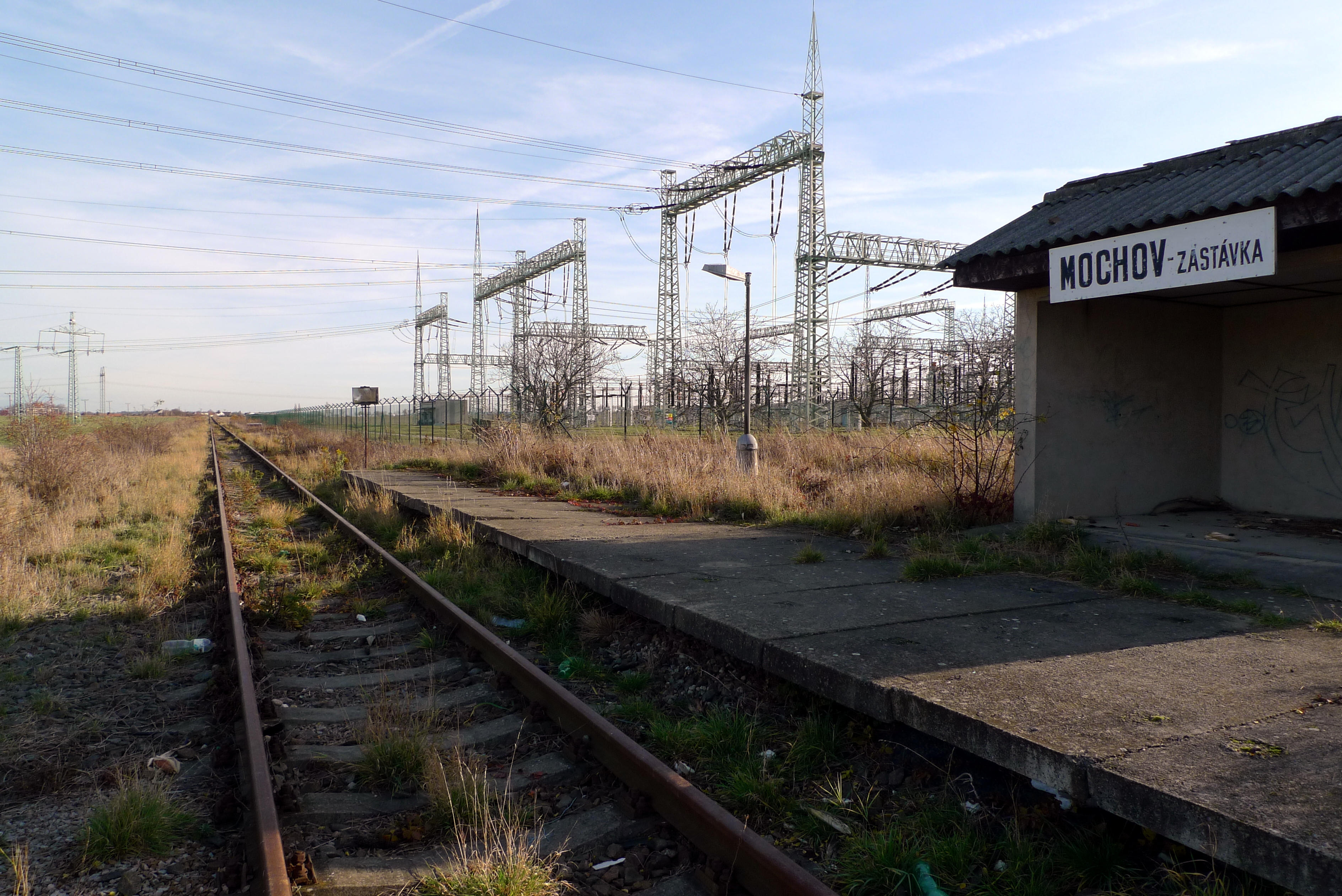 Railway station Mochov zastávka in the Czech Republic, Čechy Střed substation in the back